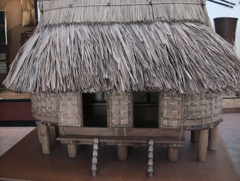 A model of Guol, the stilt house of Co Tu people, Vietnam.